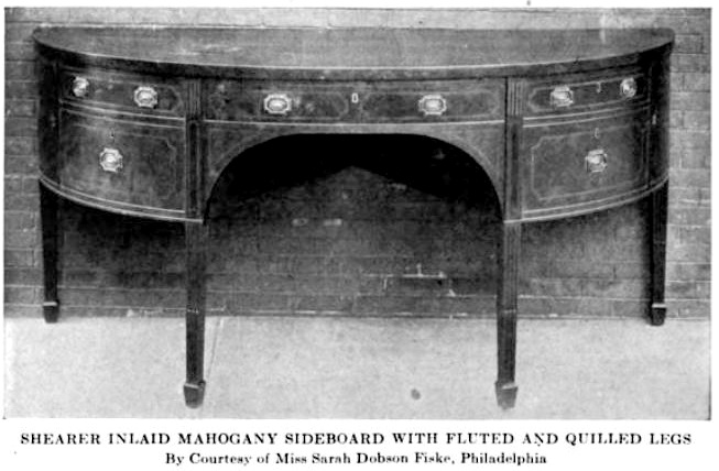 Photograph of a mahogany sideboard crafted by cabinetmaker Thomas Shearer (c. 1780)